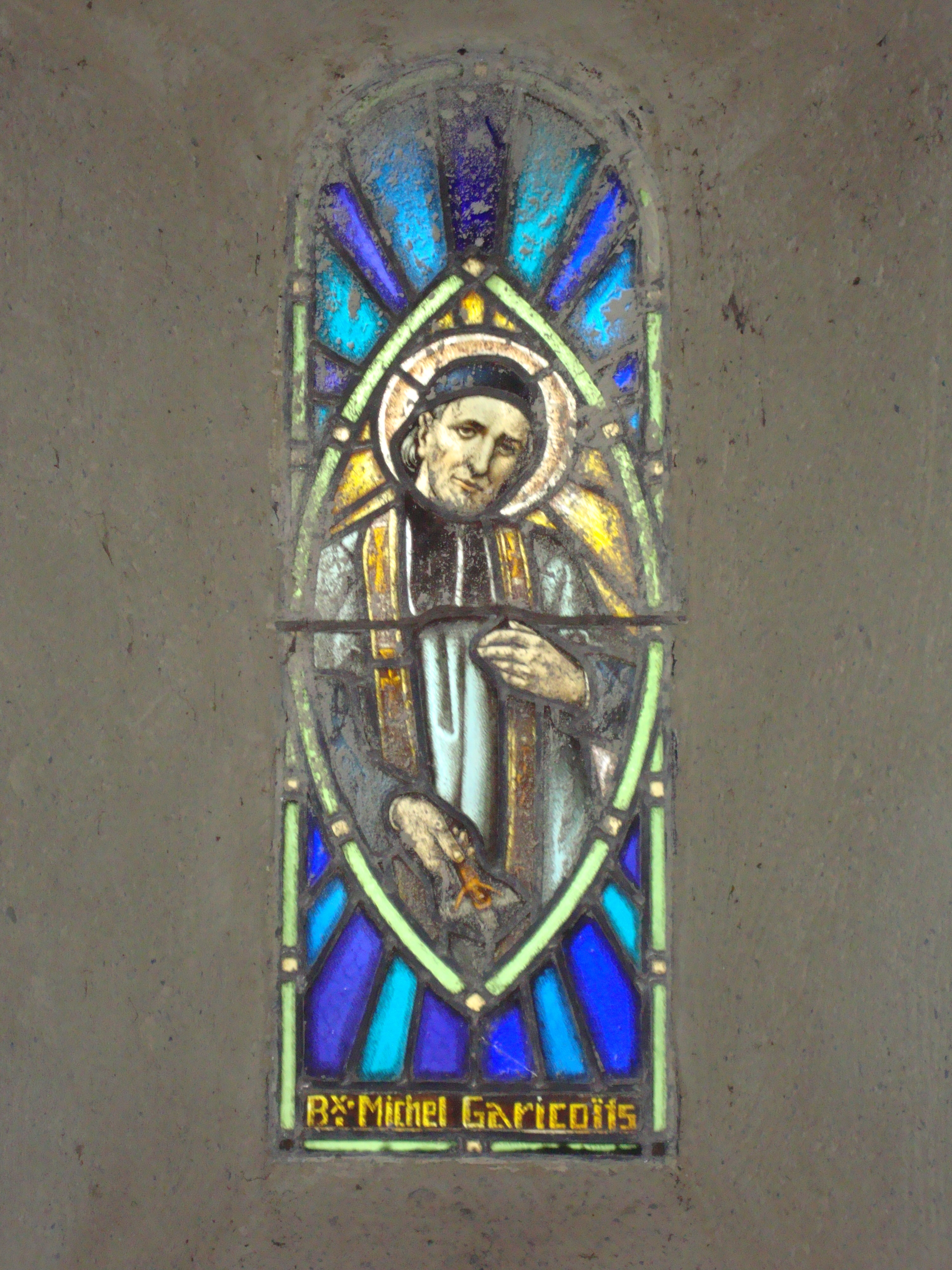 Issor (Pyr-Atl, Fr) Church St.John the Evangelist stained glass window 1, Michael Garicoits